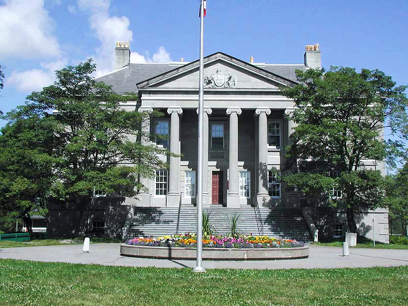 Colonial Building in St. John's, Newfoundland and Labrador, Canada.